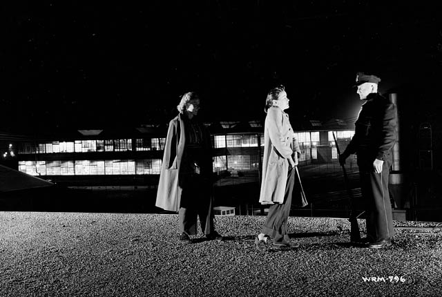 Veronica Foster, a famous ww2 gunsmith, outside John Inglis, at night.